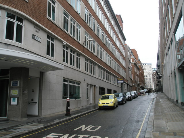 Bouverie Street Where The Sun was produced until the move to Wapping.